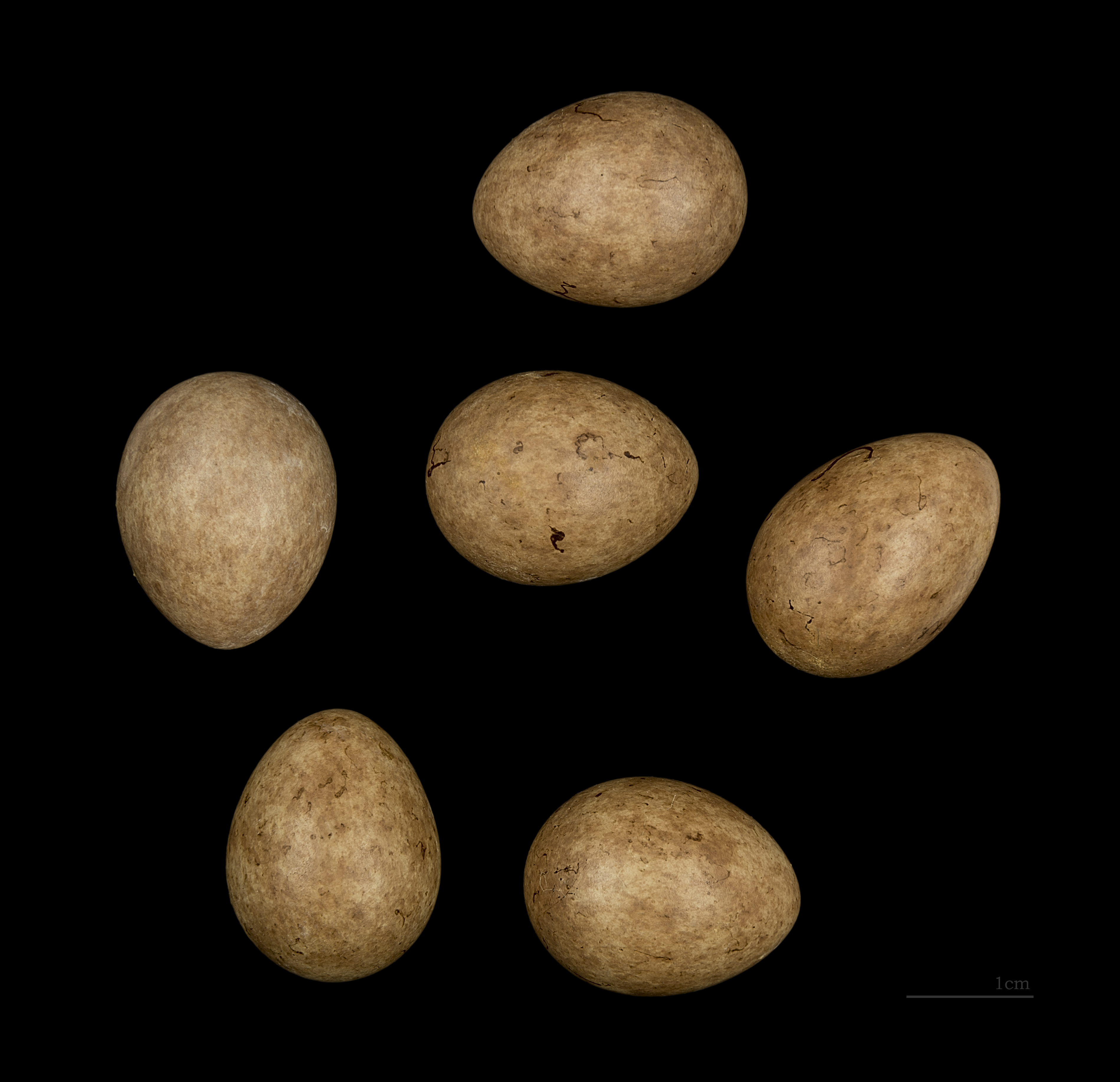 Egg of Lapland Longspur. Collection of Jacques Perrin de Brichambaut.